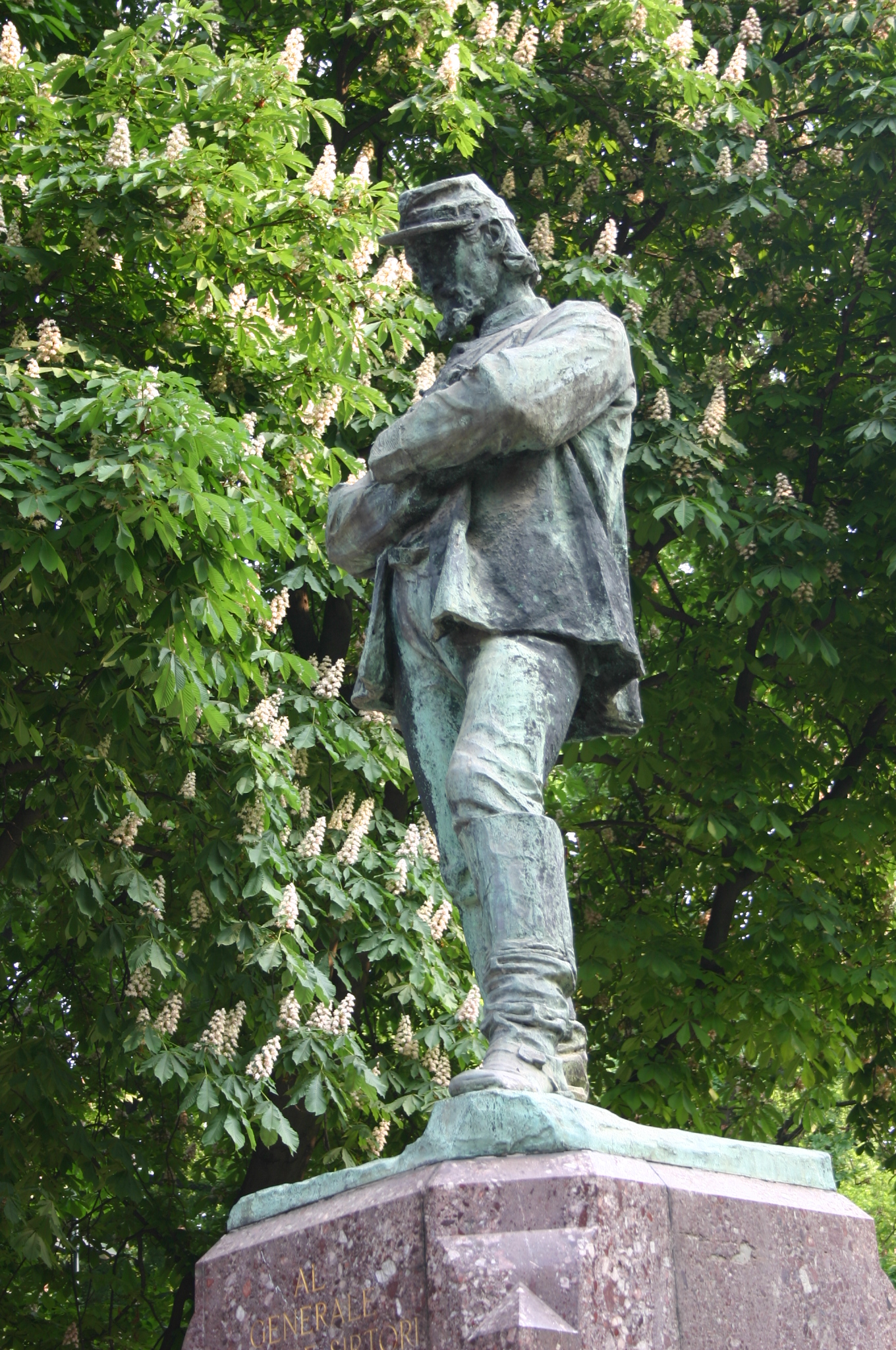 Monument by Enrico Butti for the Garibaldine general Giuseppe Sirtori (1892), in the "Giardini pubblici di Porta Venezia" gardens, in Milan, Italy. Picture by Giovanni Dall'Orto, April 22 2007.